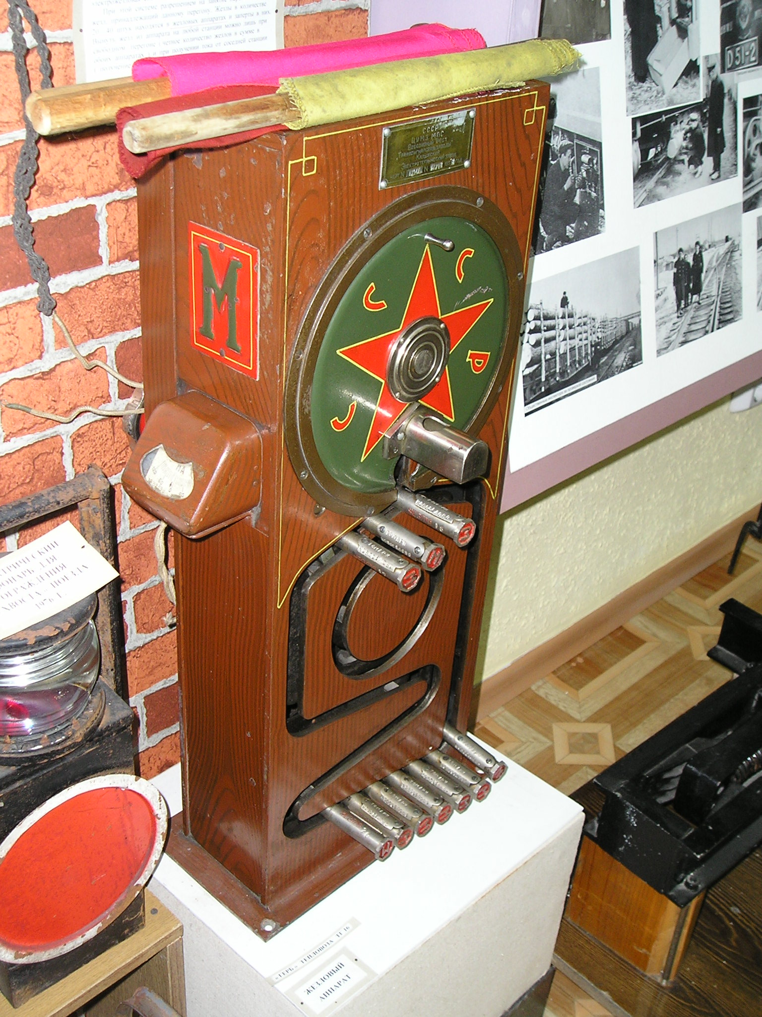 Token instrument